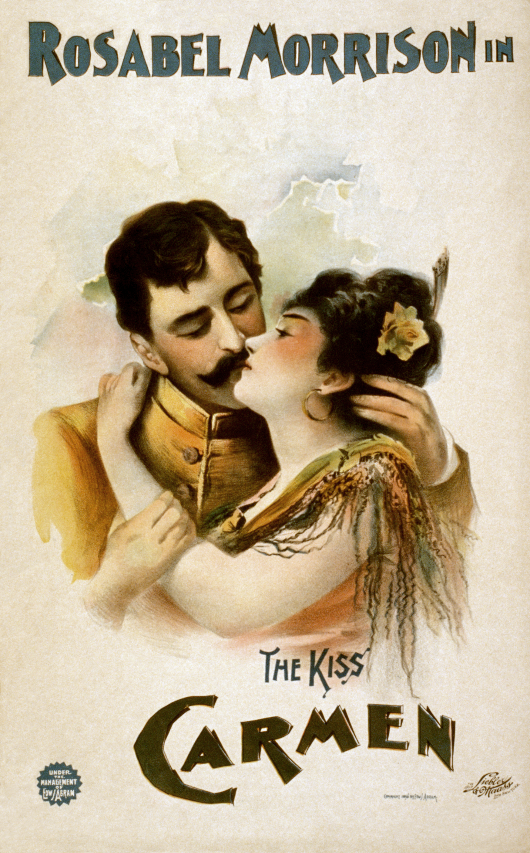 Poster for an 1896 dramatic adaptation of Carmen, starring Rosabel Morrison, and under the management of Edward J. Abram